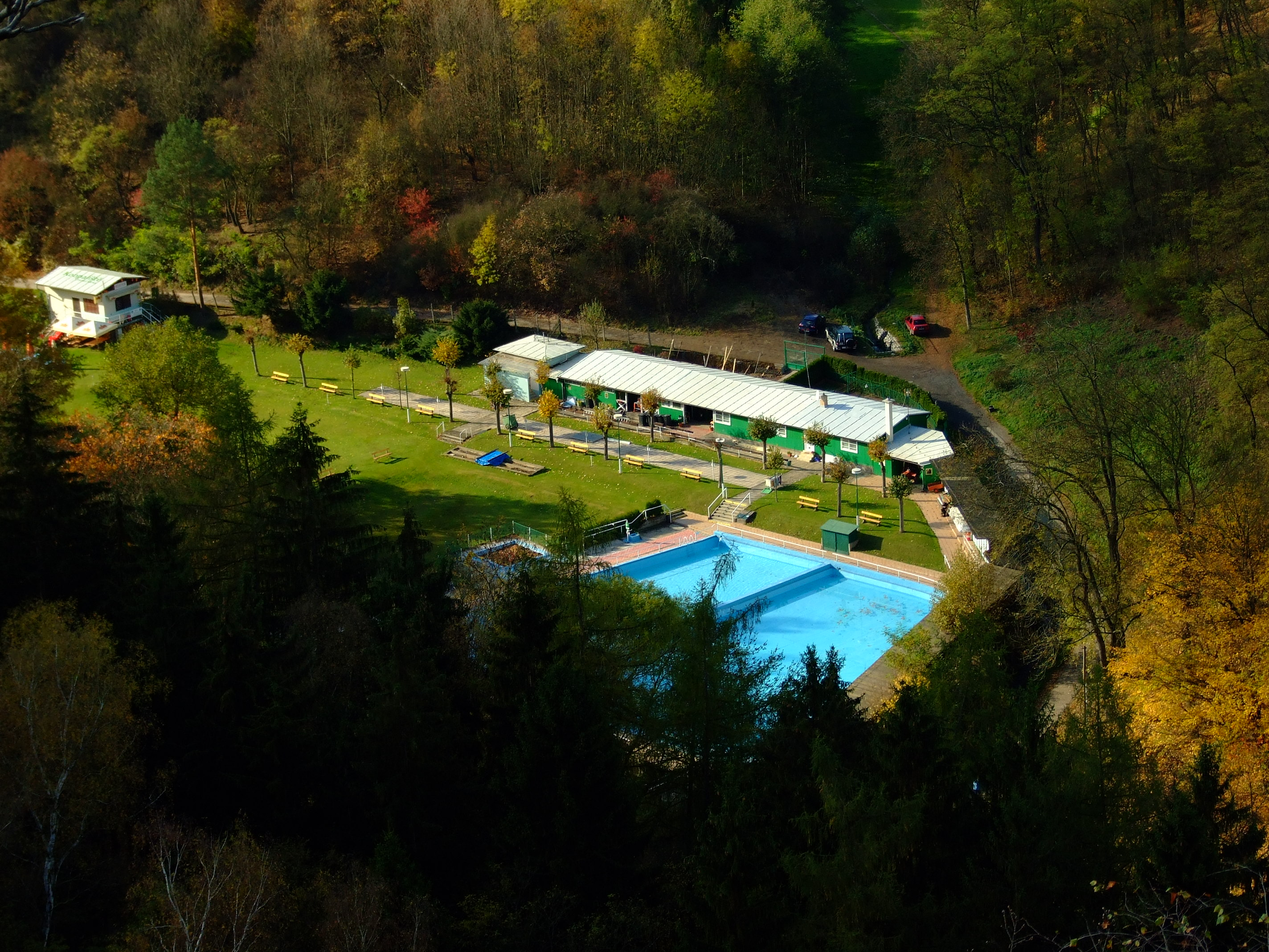 Natural reserve Divoká Šárka in Prague in October 2008help